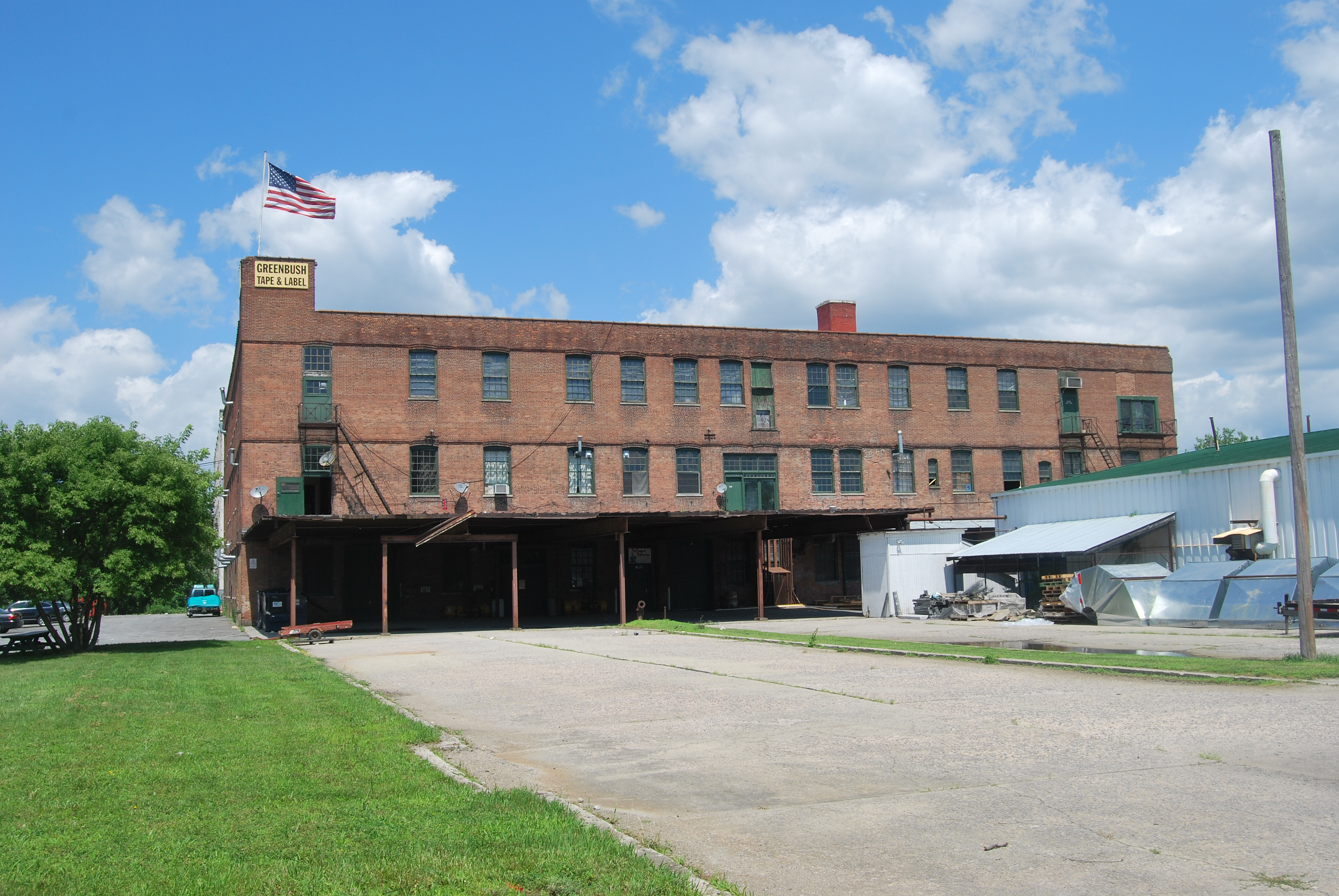 A. Mendelson and Son Company Building in Albany, New York